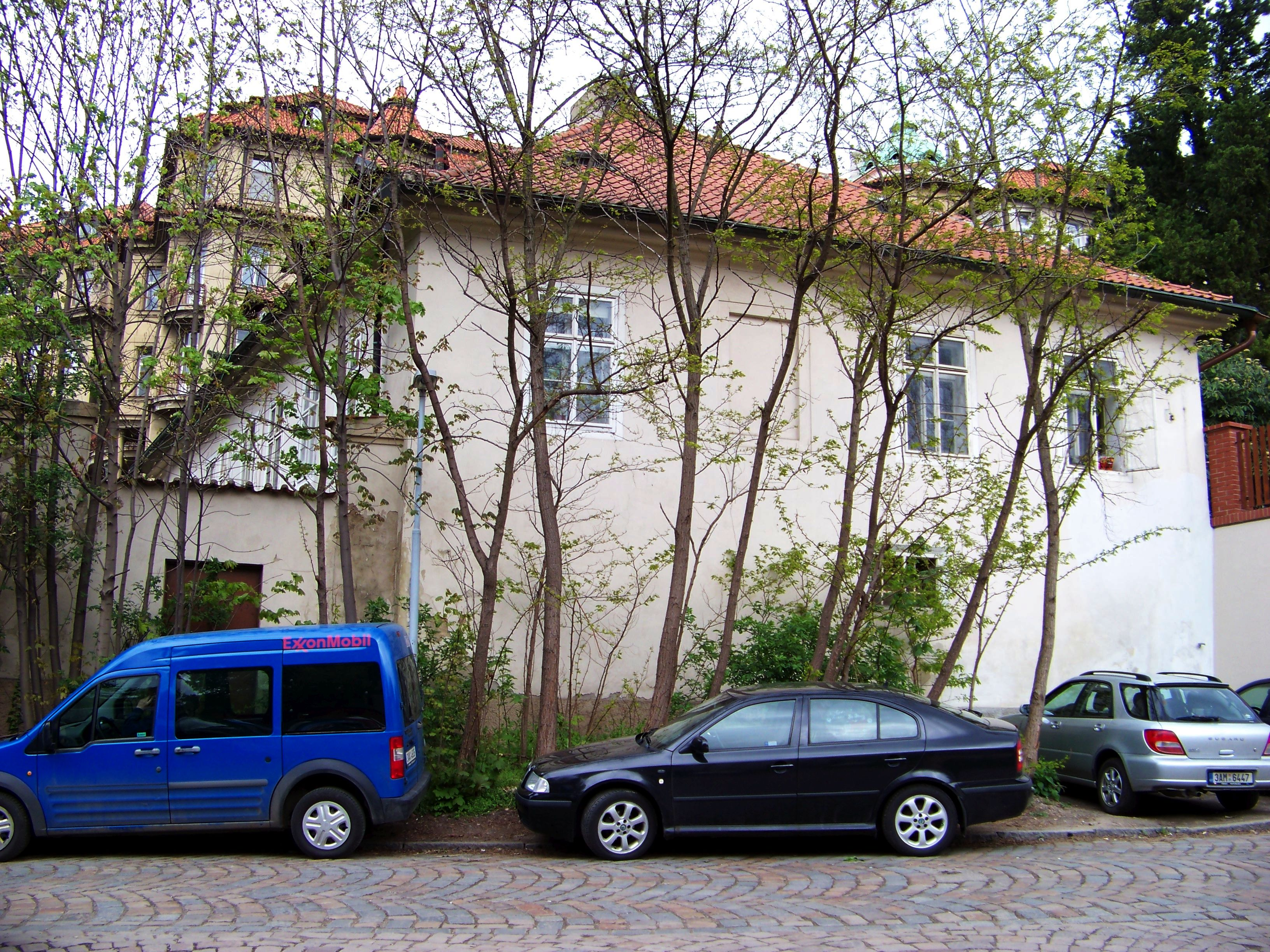 Prague-Podolí, Czech Republic. U podolského sanatoria 5/3, Neumanka estate.